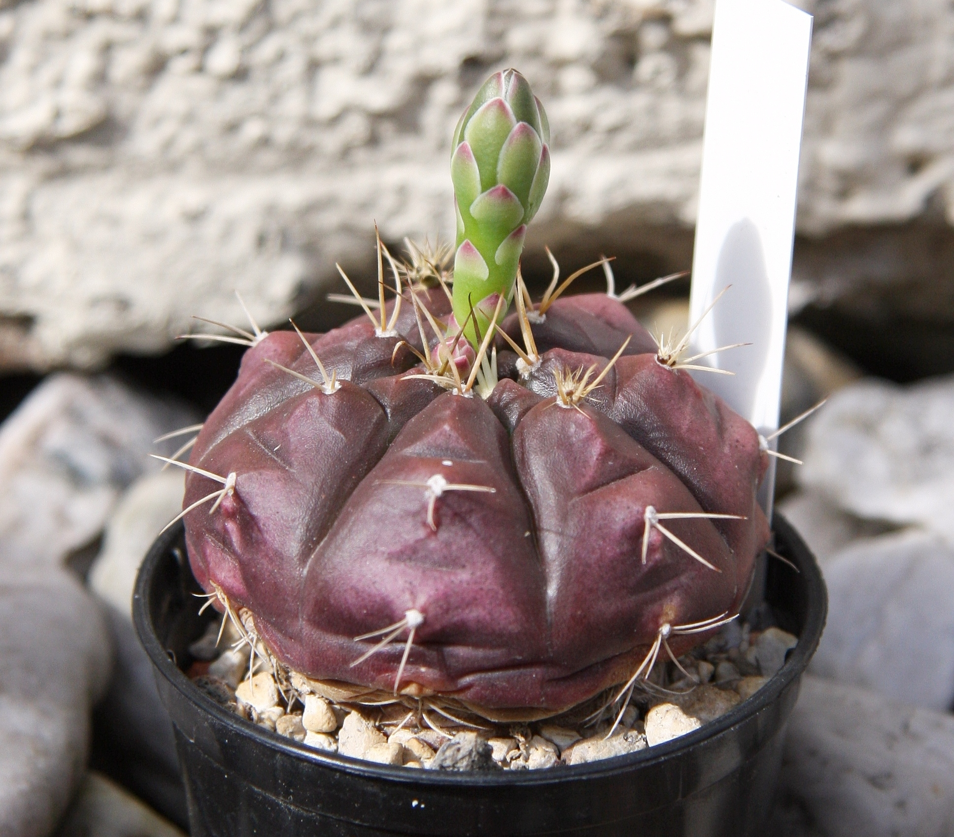 Gymnocalycium anisitsii sp. damsii